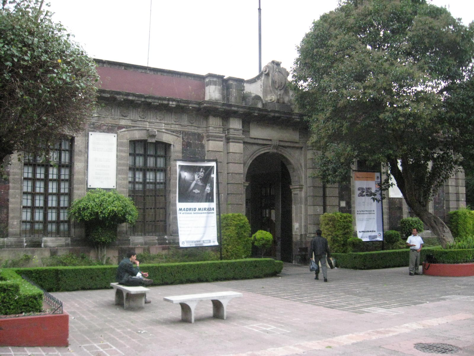 Entrance to José Vasconcelos Central Library of Mexico City located in the La Ciudadela fort near Metro station Balderas